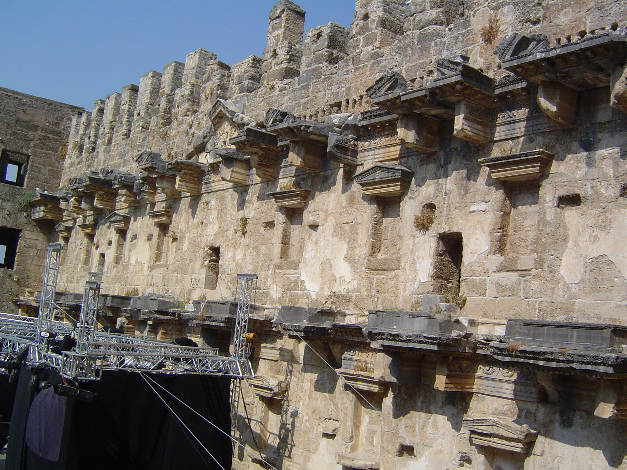 The Ancient Roman theater in Aspendos, Turkey.